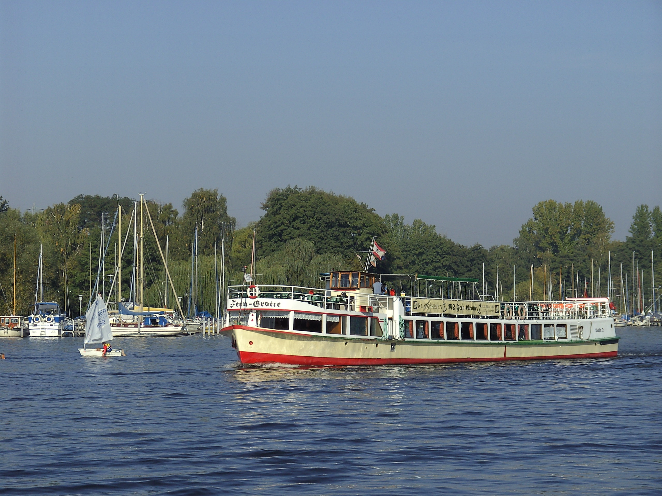 Ausflugsdampfer "Feen-Grotte" auf der Havel.